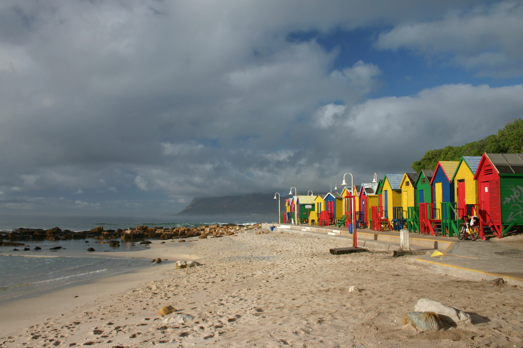 St James beach in Cape Town, South Africa.